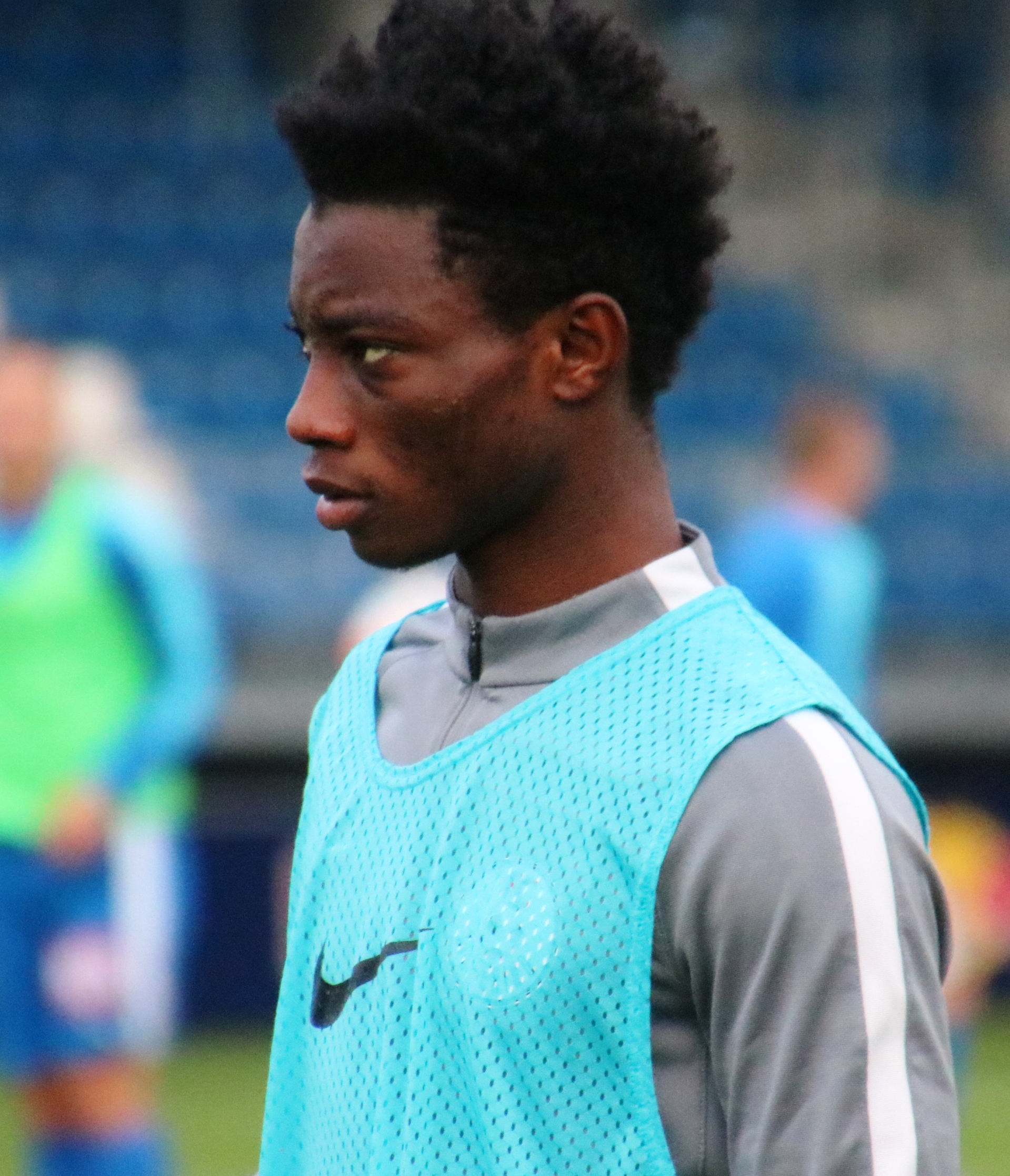 league match Austria 2nd league